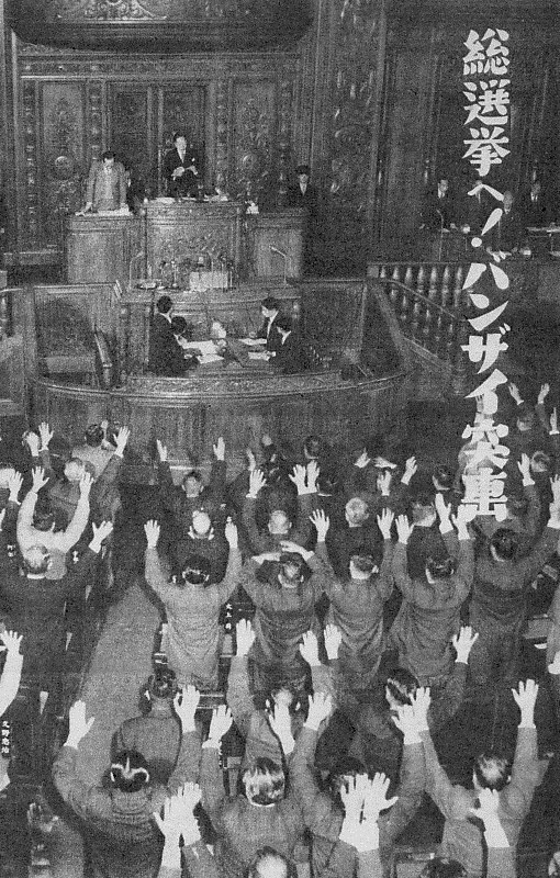 Bakayaro Dissolution of the Diet